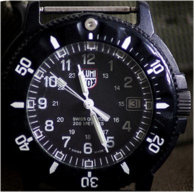 Luminox Navy Seals watch